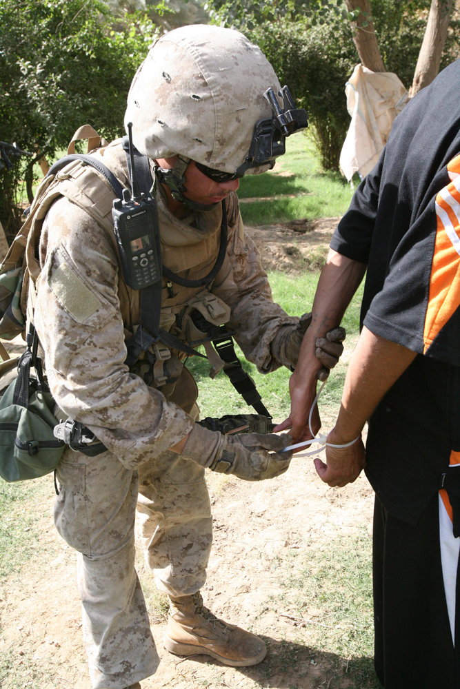 Lance Cpl. Edwin S. Contreras, 19, an assaultman with Company I, 3rd Battalion, 4th Marine Regiment, Regimental Combat Team 5, flexi-cuffs a known insurgent in Hit, Iraq, June 21. Marines with Company I detained four known insurgents during an intelligence raid in the Hit area. The detainment of the four insurgents helped make the area of Hit safer for Coalition forces and the local Iraqi population.